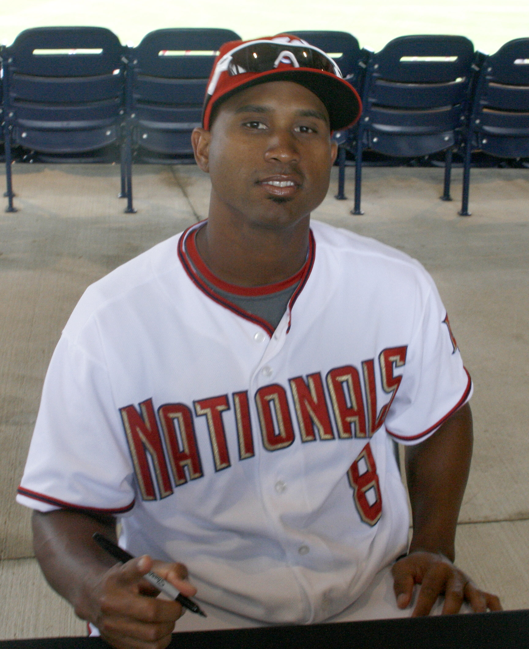 Jorge Padilla signs autographs.